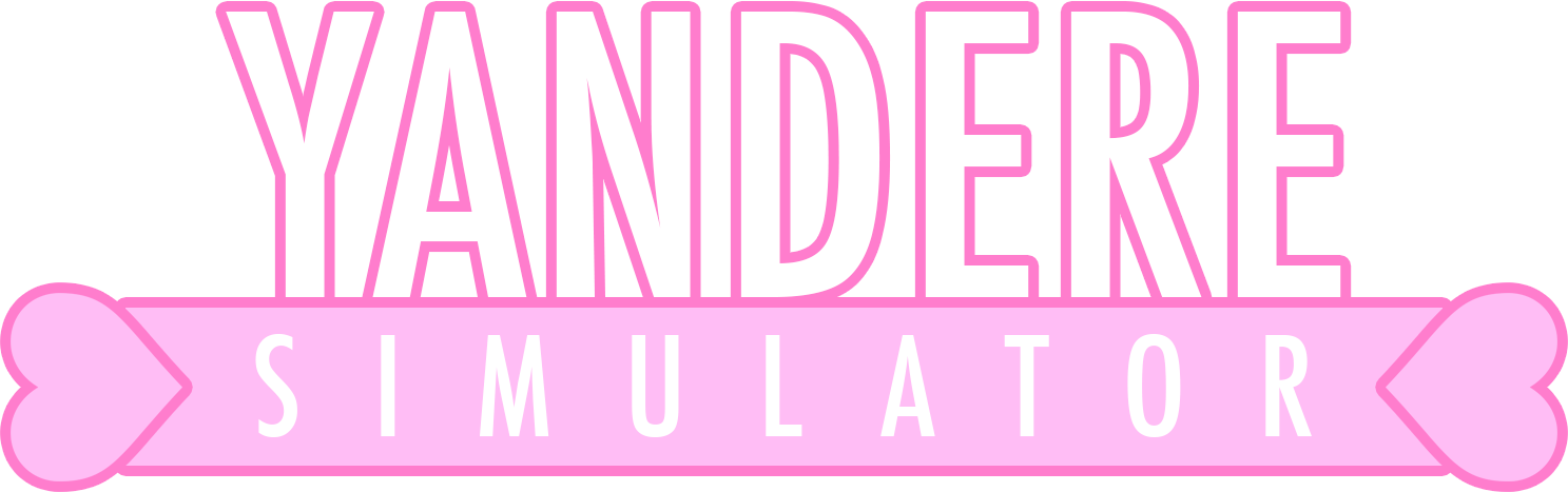 The logotype for Yandere Simulator.